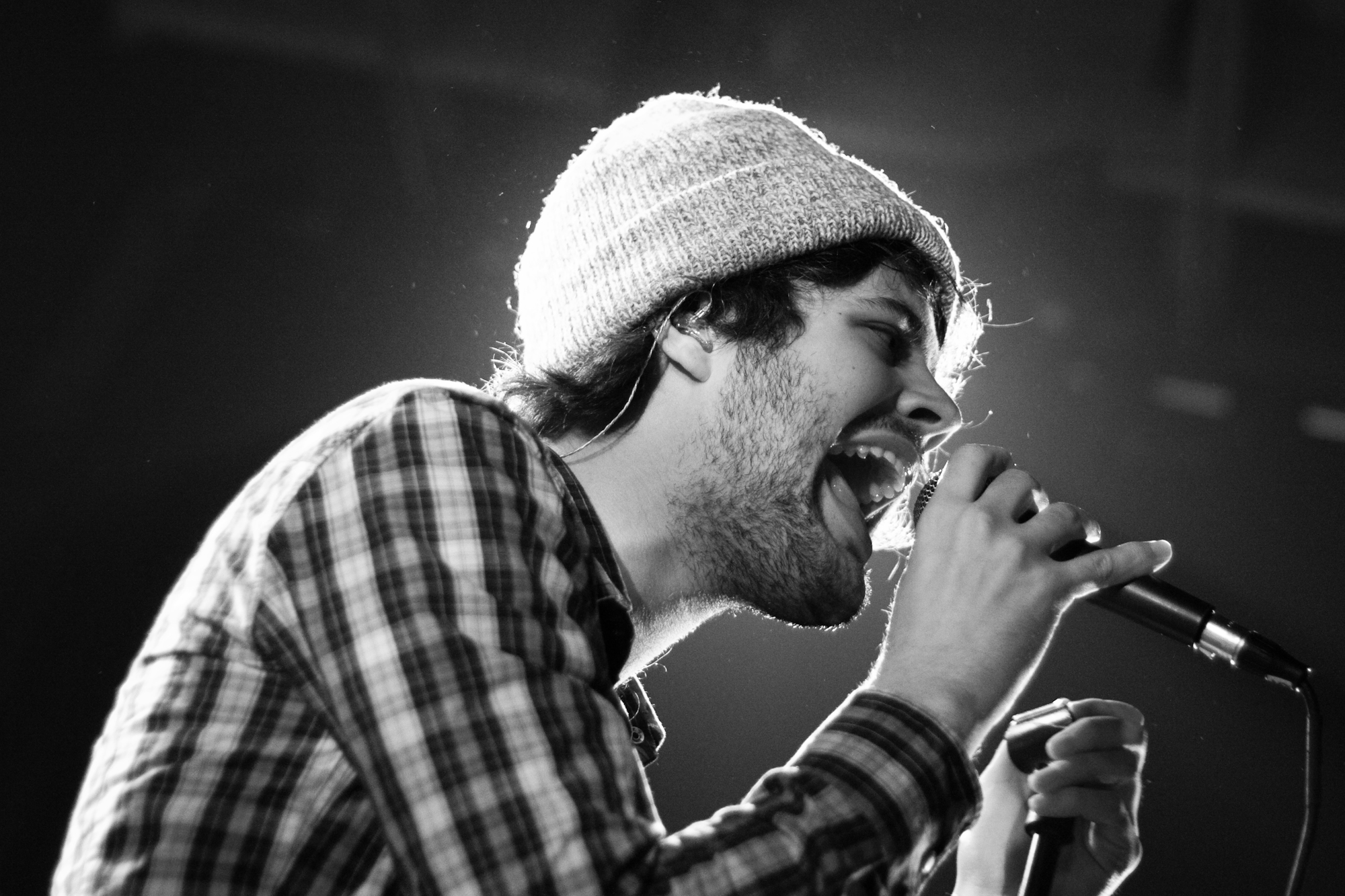 Passion Pit at the Mezzanine (San Francisco, California)